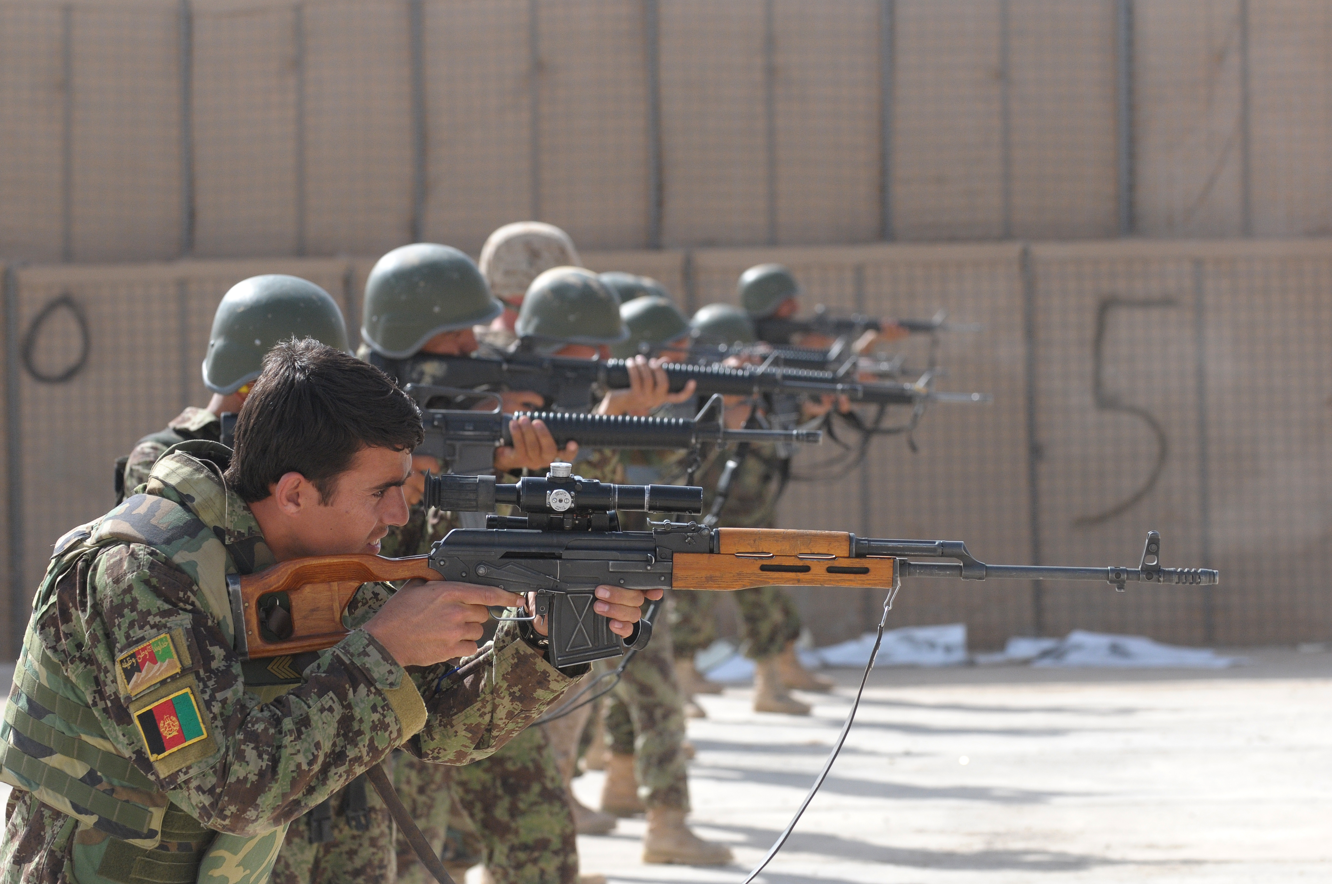 Afghan National Army soldiers practice shooting on the firing range during training with U.S. Marines from 3rd Battalion, 25th Marine Regiment and Danish army soldiers from the Operation Mentoring and Liasion Team at Camp Shorabak, Helmand province, Afghanistan, Oct. 2, 2010. The soldiers fired at a variety of ranges and scenarios with M16A2 rifles and a Draganov Sniper rifle PSL designated marksman rifle. (British Royal Air Force photo by Sgt. Martin Downs/Released)